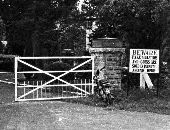 I took this photo on a visit to the Taxila Museum in 1981. this sign was beside the front gate